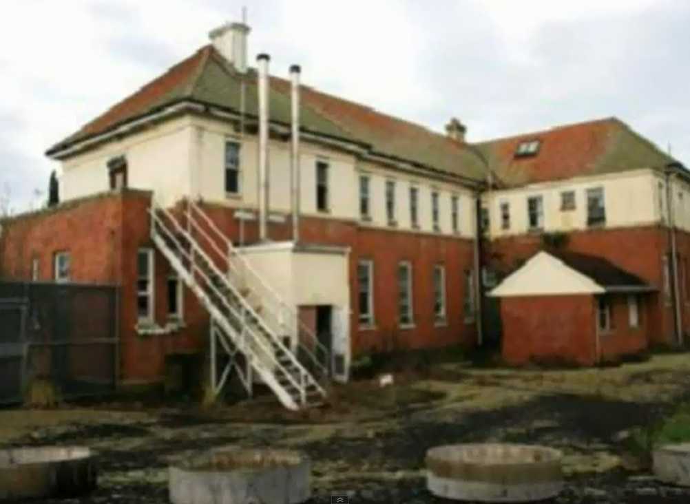 Alternative view of Kingseat Hospital